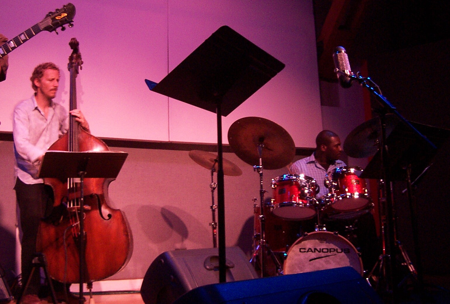 Ben Street (double-bass) and Rodney Green (drums)